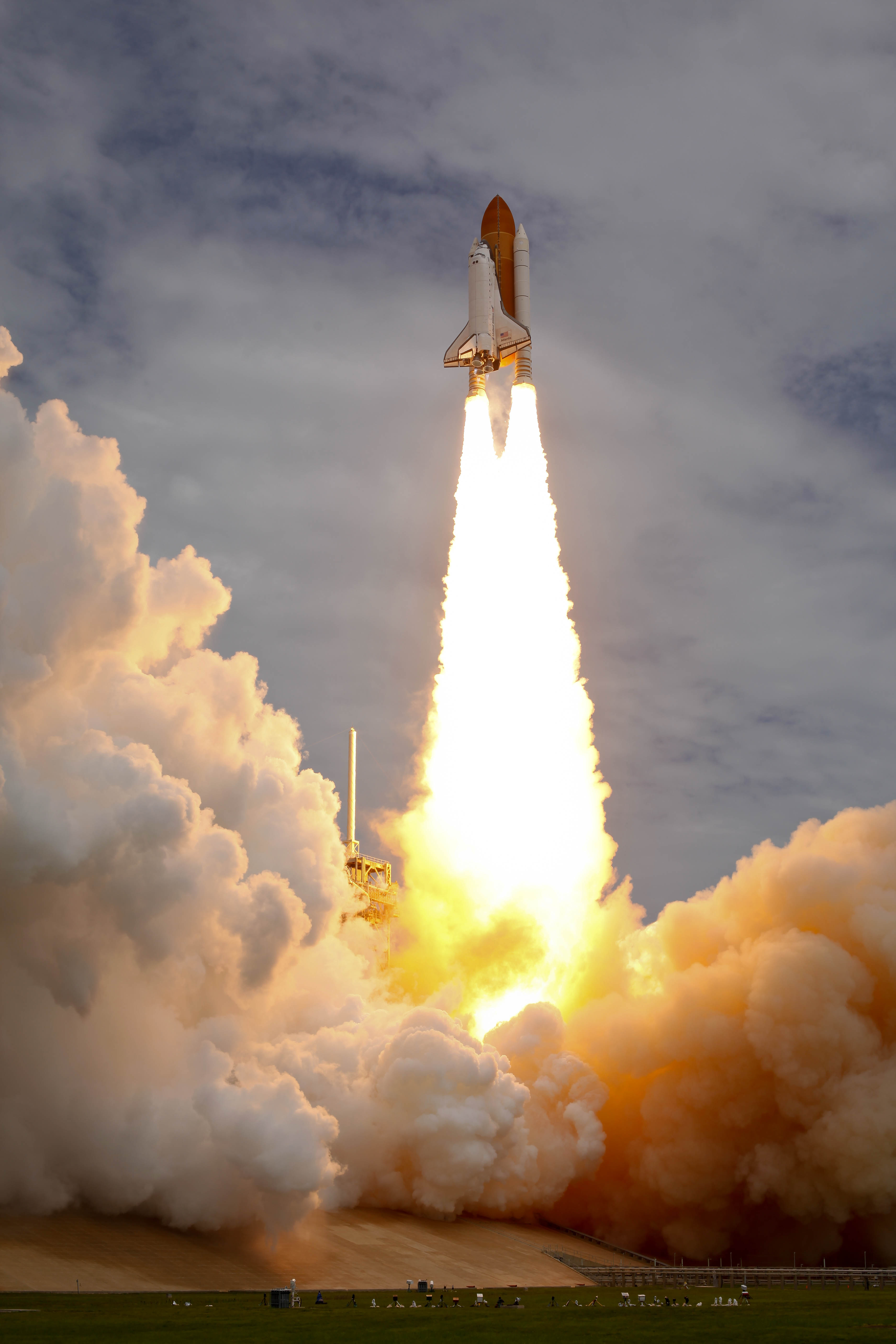 Space Shuttle Atlantis is seen as it launches from pad 39A on Friday, July 8, 2011, at NASA's Kennedy Space Center in Cape Canaveral, Florida.